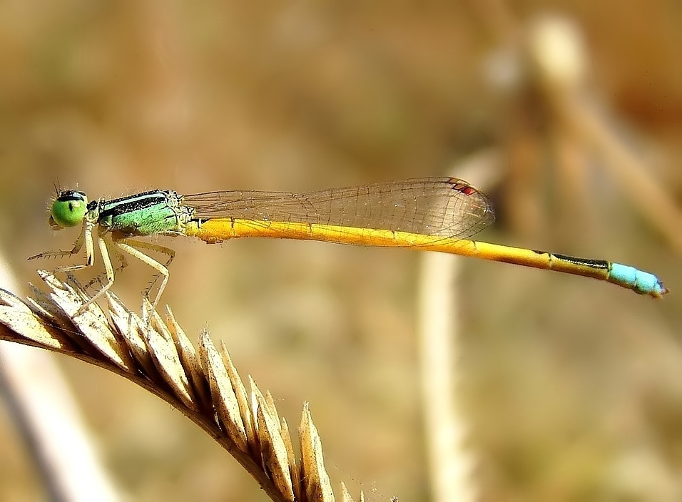 A Male Golden Dartlet seen resting on a dry plant.